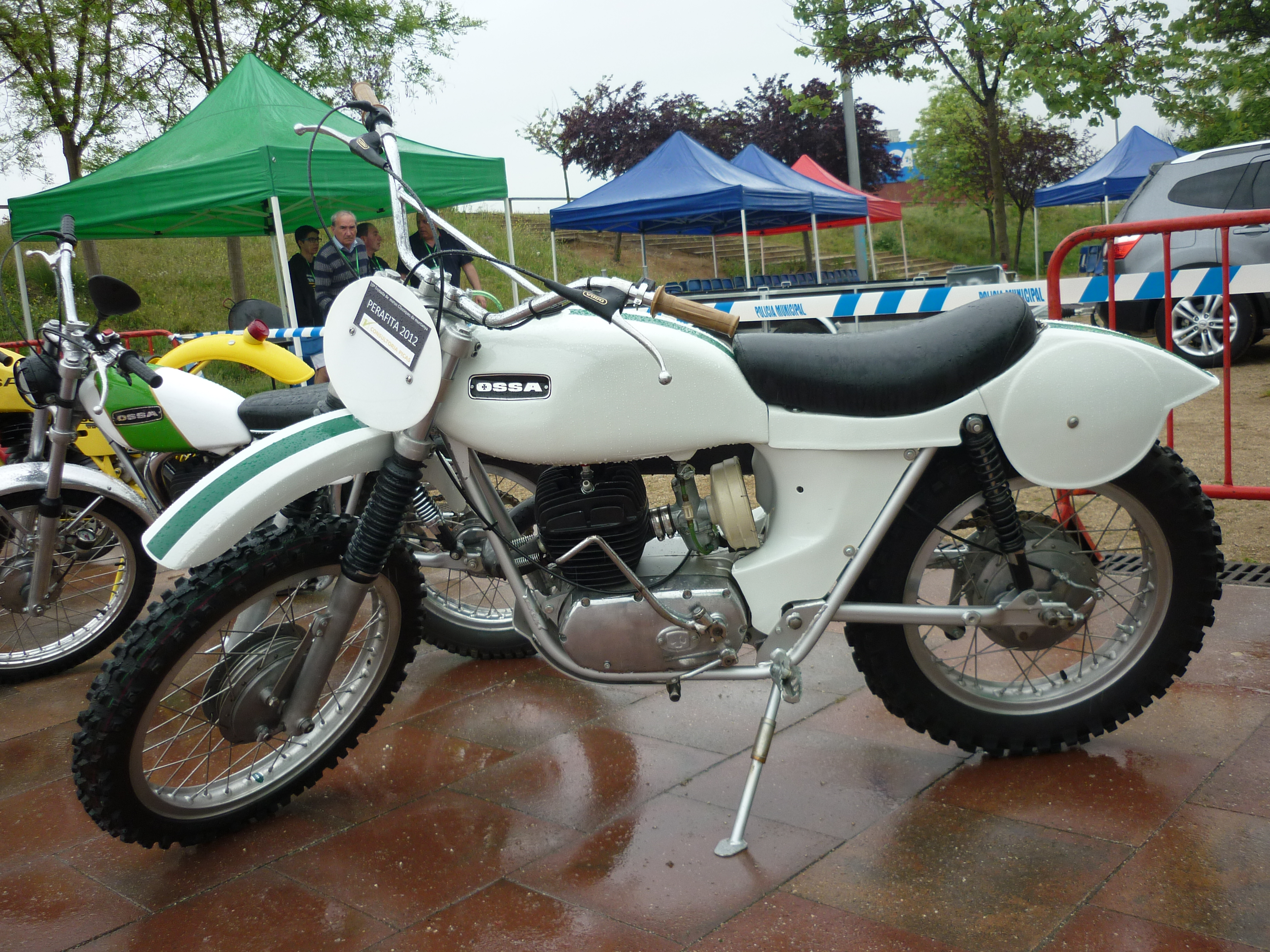 OSSA Enduro 250 AE-73, 1973, tunned by he user. The original colors were white and red